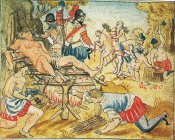 Picture from a Bartolomé de las Casas' account about the Spanish atrocities in Mexico.